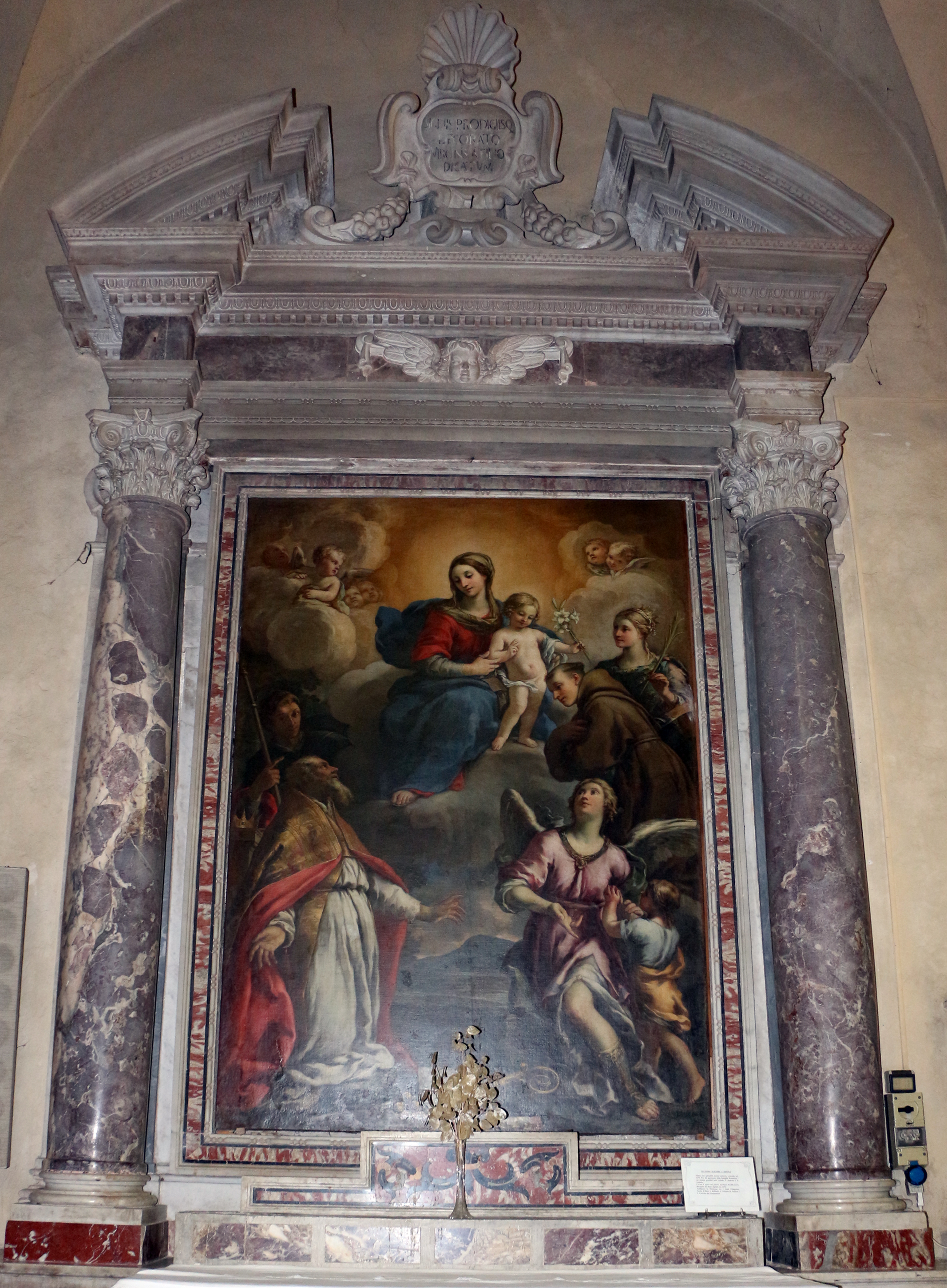 Santi Lorenzo e Barbara (Seravezza)